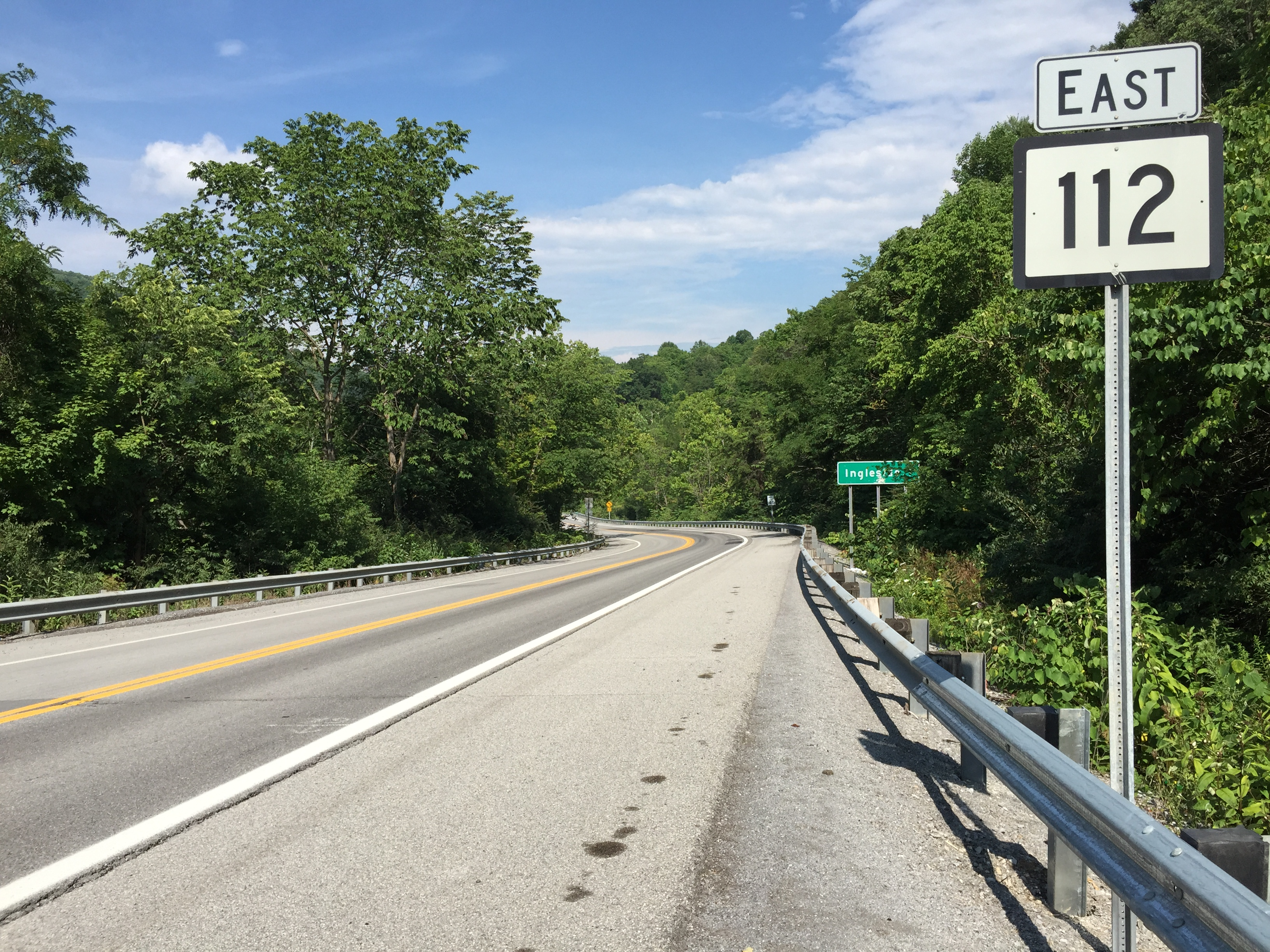 View east along West Virginia State Route 112 (Ingleside Road) at Interstate 77 in Ingleside, Mercer County, West Virginia